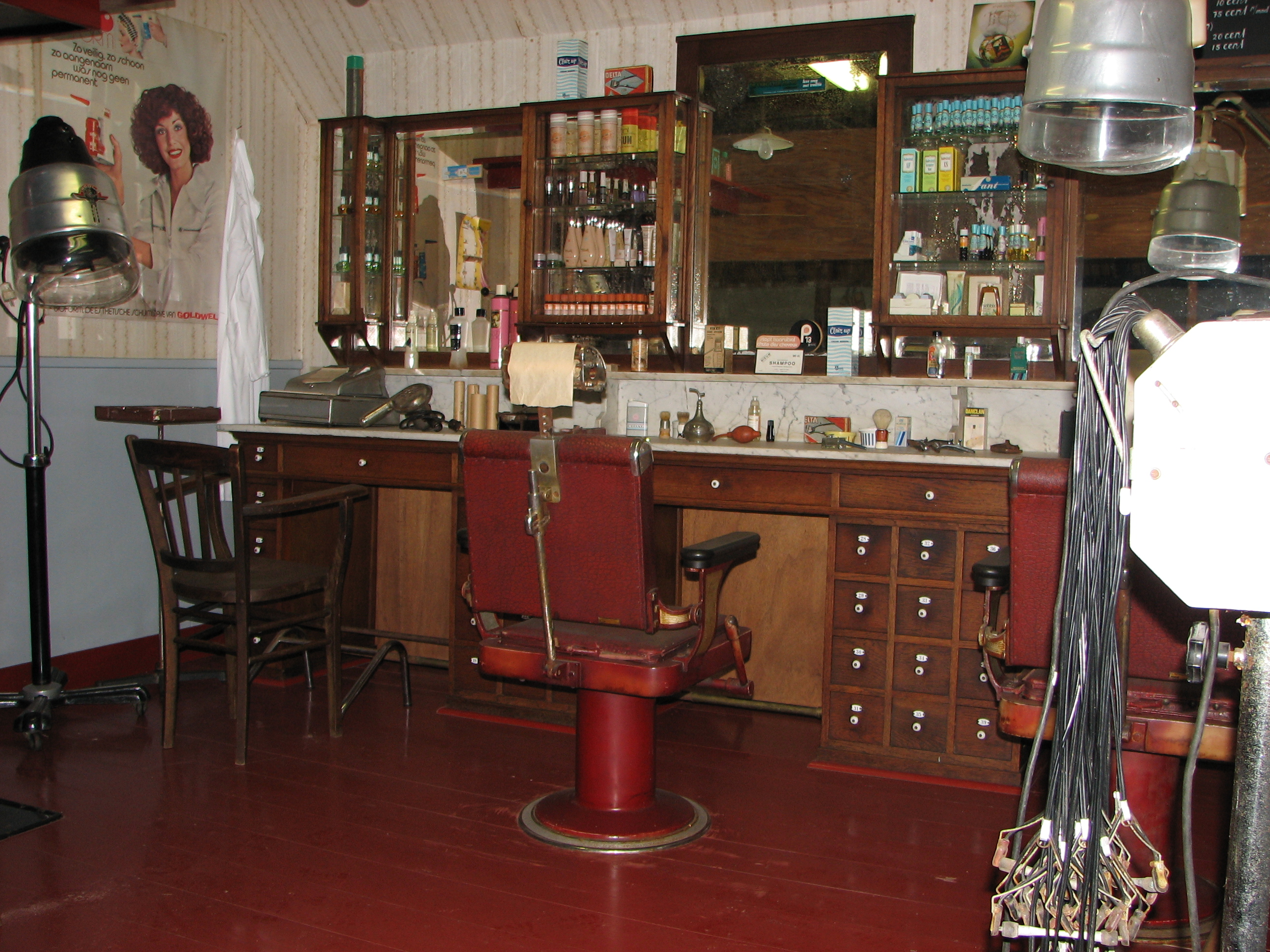 Interior of an Amsterdam barbershop. This complete interior was sold on the Waterlooplein fleamarket in 1930.